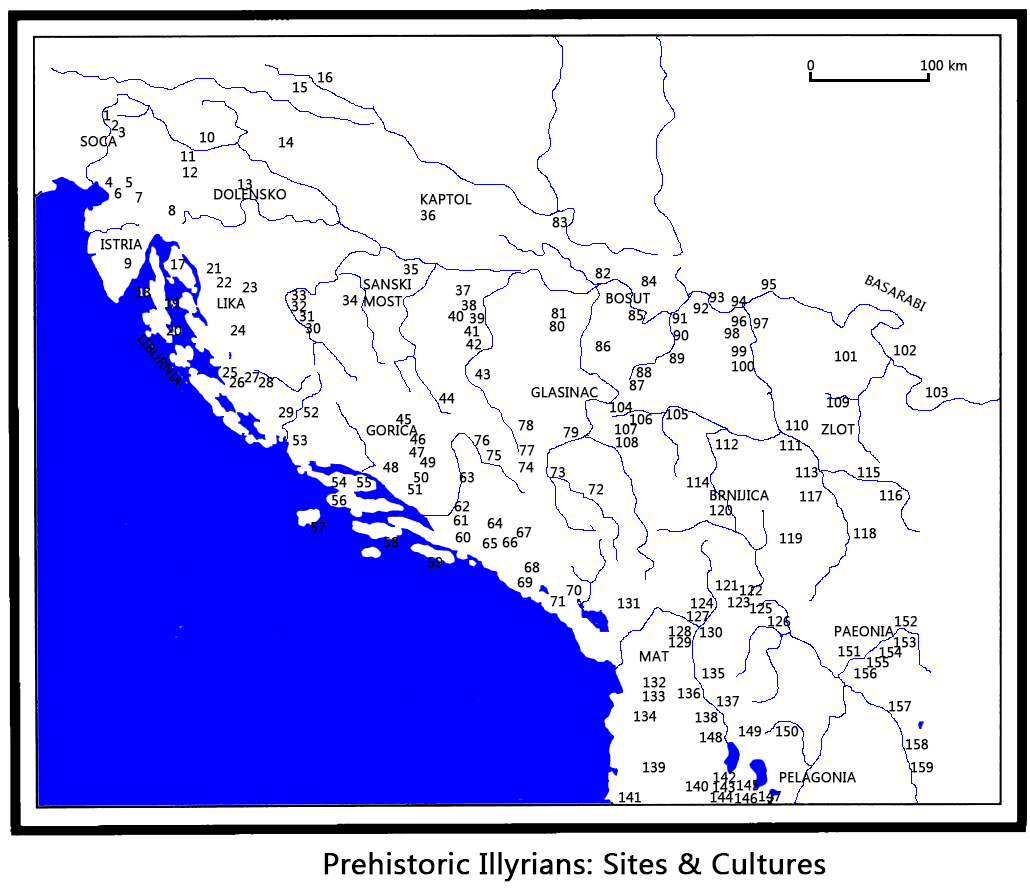 Prehistoric Illyrians, Sitesa and Cultures, by Wilkes